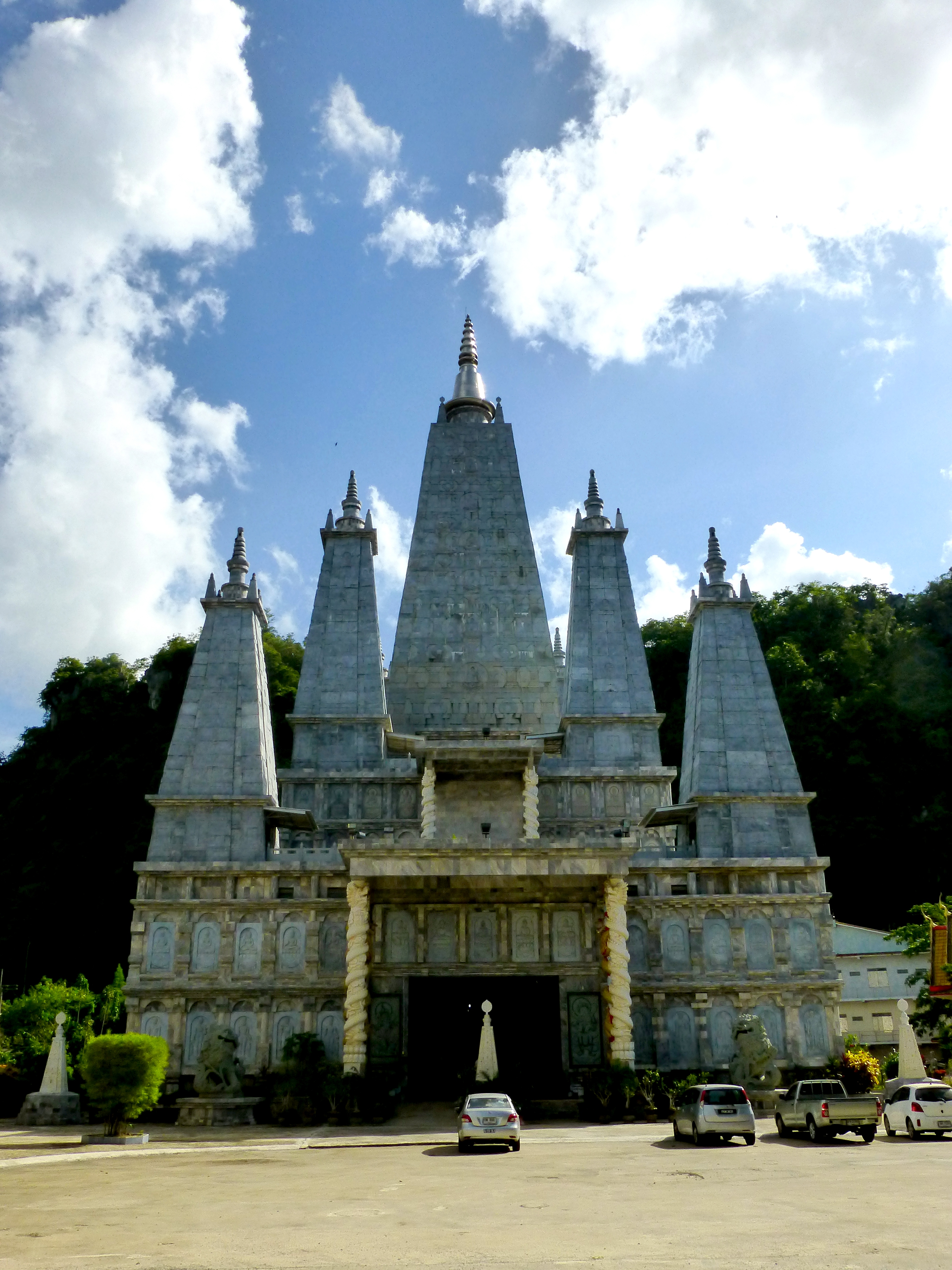 001 Temple of the Thousand Buddhas, Wat Tham Khao Rup Chang, Sadao, Thailand Photograph from Wat Tham Khao Rup Chang in Songkhla Province, Thailand taken by Anandajoti.